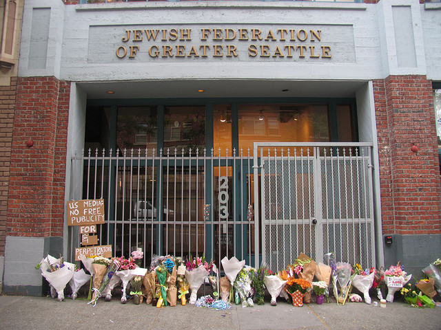 Flowers outside the Jewish Federation building in Seattle, Washington, a memorial to the victims of the 2006 Seattle Jewish Federation shooting.